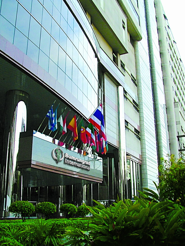 I took the photo myself and allow this photo to be seen and used free for public domain.